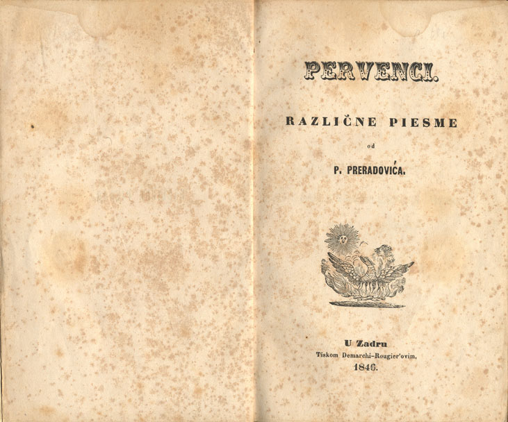 Title page of Pervenci